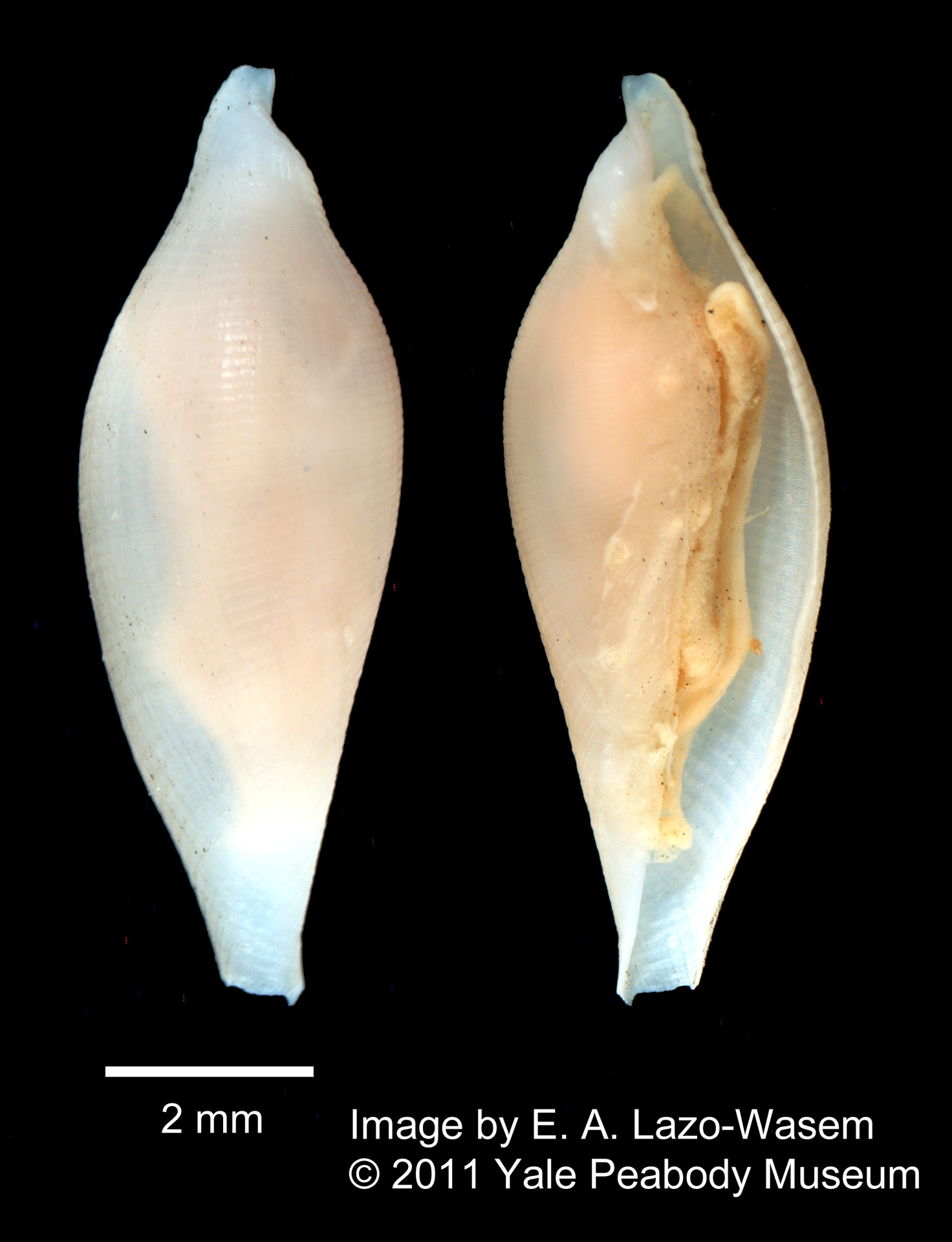 PRESERVED_SPECIMEN; ; ; 70% alc.; ; BRC img; IZ number 51408; lot count 1; original catalog number YPM No. 9215; 1866-01-01T00:00:00Z